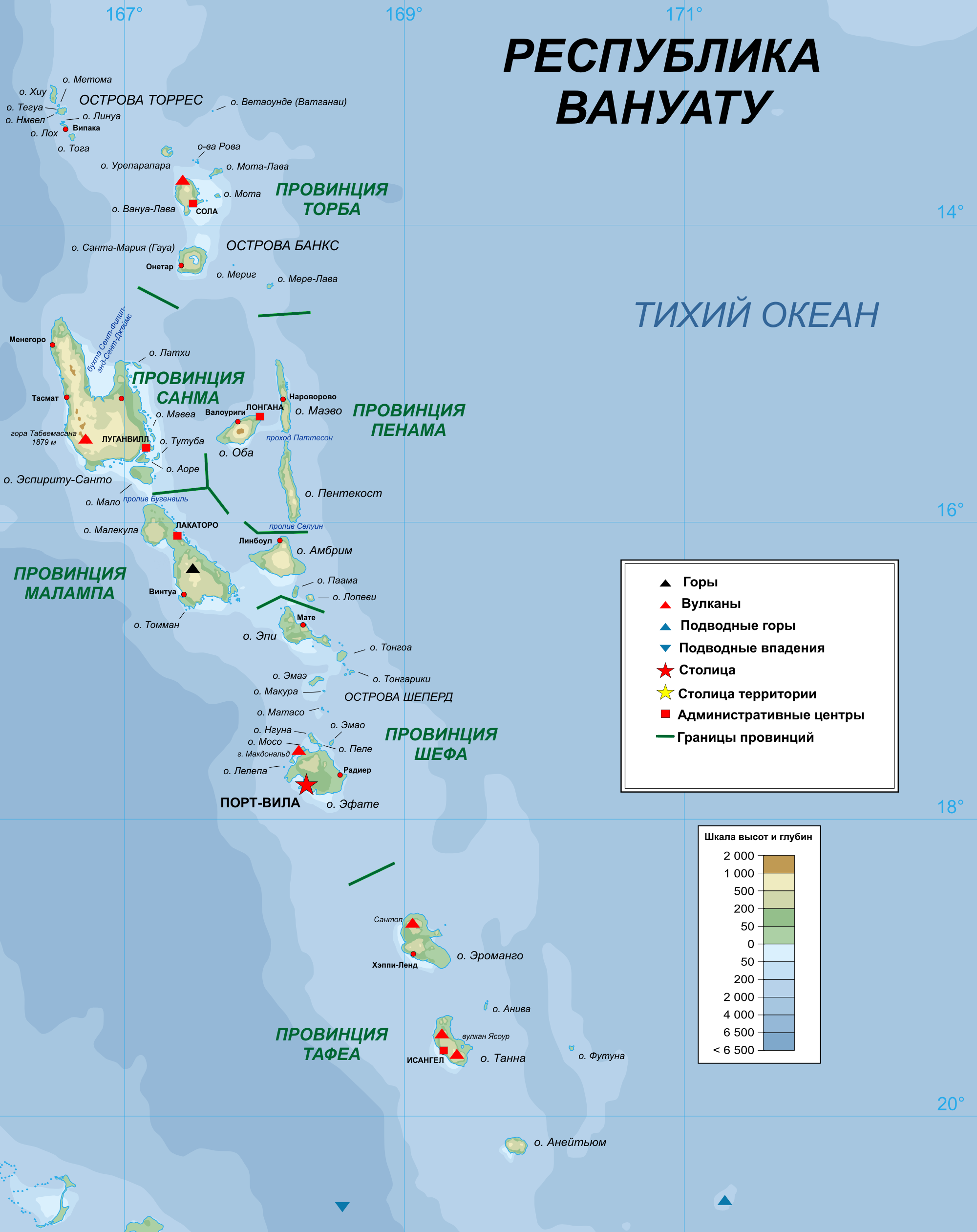 Map of Vanuatu in Russian